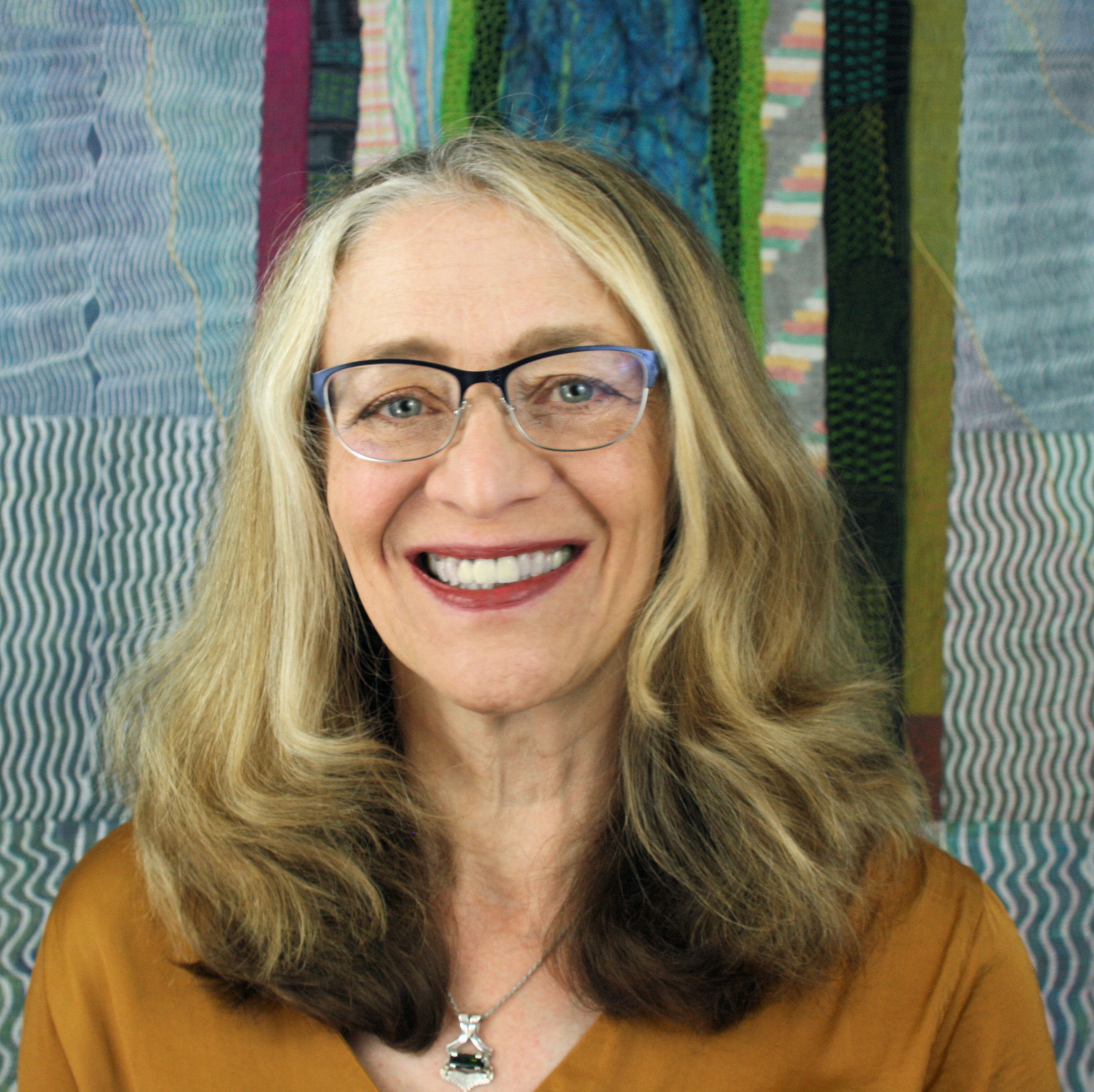 Sue Reno is a fiber artist from Lancaster, PA, USA